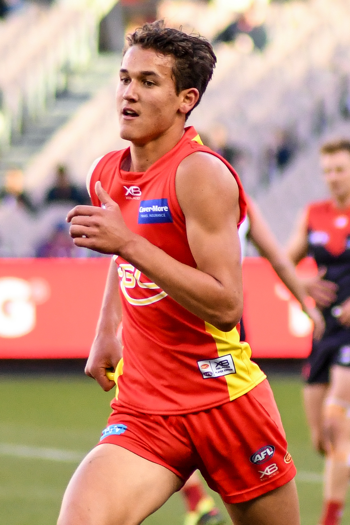 Wil Powell of Gold Coast during the 2018 AFL round 20 match between Melbourne and Gold Coast at the Melbourne Cricket Ground on Sunday, 5 August 2018 in Melbourne, Victoria.